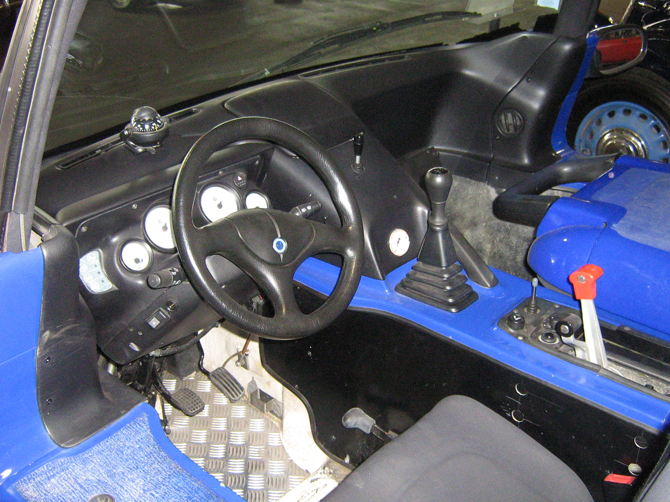 1992 Hobbycar B 612 interior